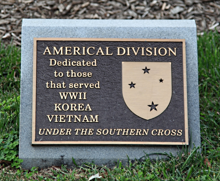 Americal Division memorial in Arlington National Cemetery in Arlington, Virginia, in the United States. Regulatory changes at the cemetery limited the size, placement, and number of memorials in the late 20th and early 21st centuries. Most new memorials are small plaques placed by military associations and foundations. Placement of the memorial includes a financial donation to help to maintain trees and grounds at the cemetery. As of September 2011, there were more than 140 such miscellaneous memorials in the cemetery. This memorial is in Section 34, placed before a Red Maple.